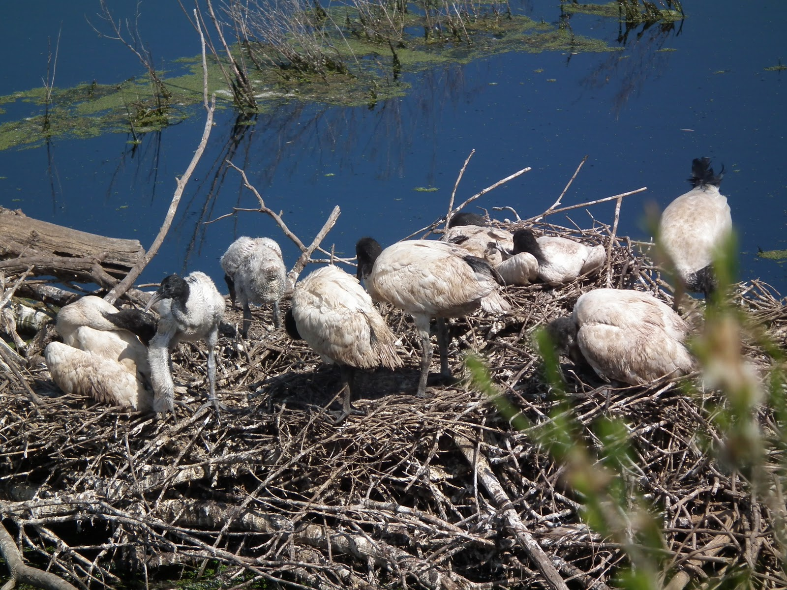 juvenile Australian White Ibises on nests at Coolart Wetlands, Mornington Peninsula, Australia.